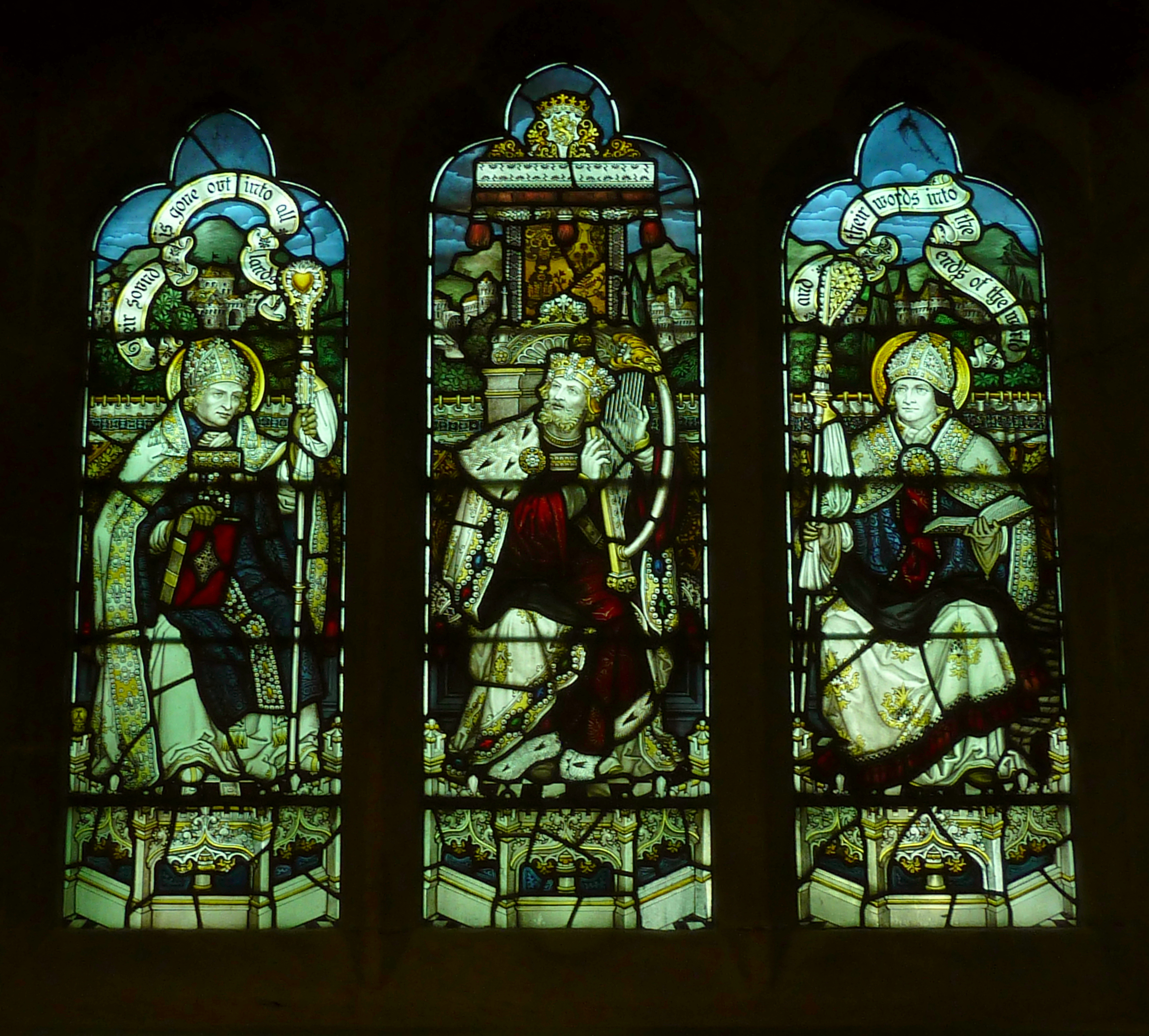 Stained glass in Church of St Thomas the Apostle, Killinghall, North Yorkshire, England. Church completed in 1880, by architect William Swinden Barber. This is a three-light window on the north aisle, on the subject of evangelism or missionary work. It shows King David in the centre light, playing music. The left-hand light carries the words, "Their sound is gone out unto all lands," and the right-hand light says "and their words into the ends of the world." This is a translation of the 4th and 5th lines of Psalm 19, as it appears in The Book of Common Prayer: day 4, morning prayer. The men on either side of David are both saints with halos, and representatives of the Church, wearing mitres. There is no dedication plaque for this window.